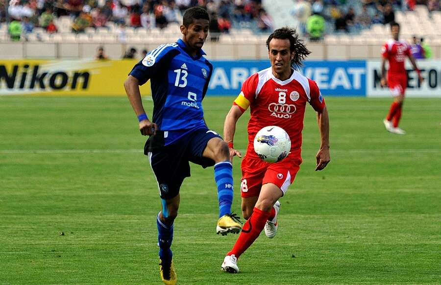 Ali karimi (Right) - Salman Al-Faraj (left)